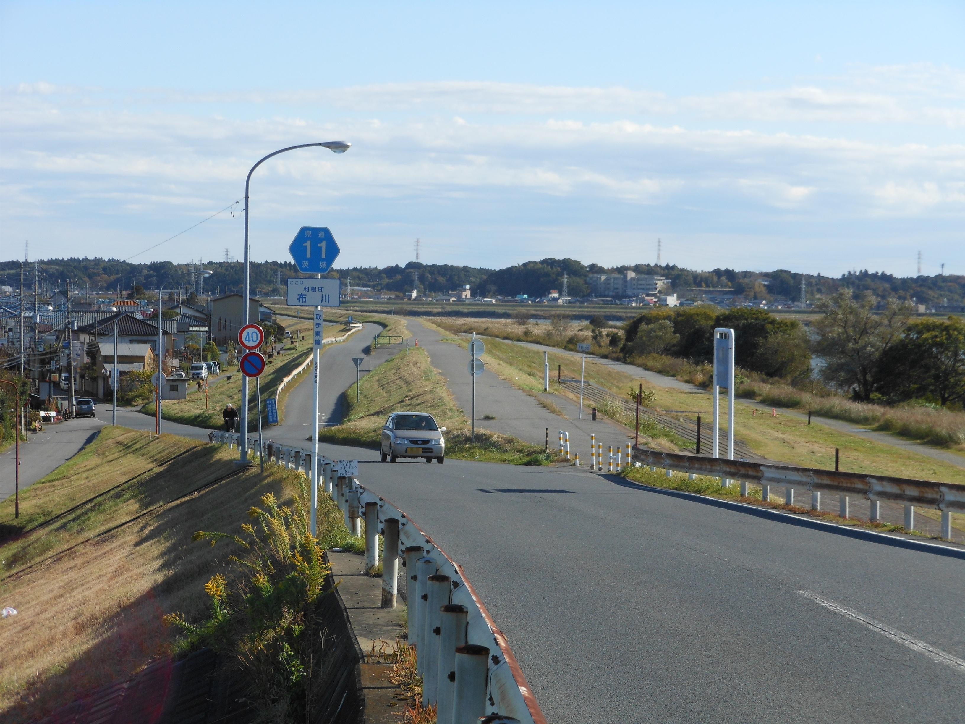 This is a landscape of Ibaraki prefectural road No.11 Toride Azuma Line in Fukawa, Tone, Ibaraki, Japan.